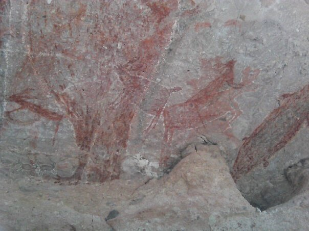 The Rock Paintings of Sierra de San Francisco. Prehistoric rock art pictographs of the Cochimi in the Sierra de San Francisco mountain range. A World Heritage Site located in Mulegé Municipality, in the northern region of Baja California Sur state, Mexico.